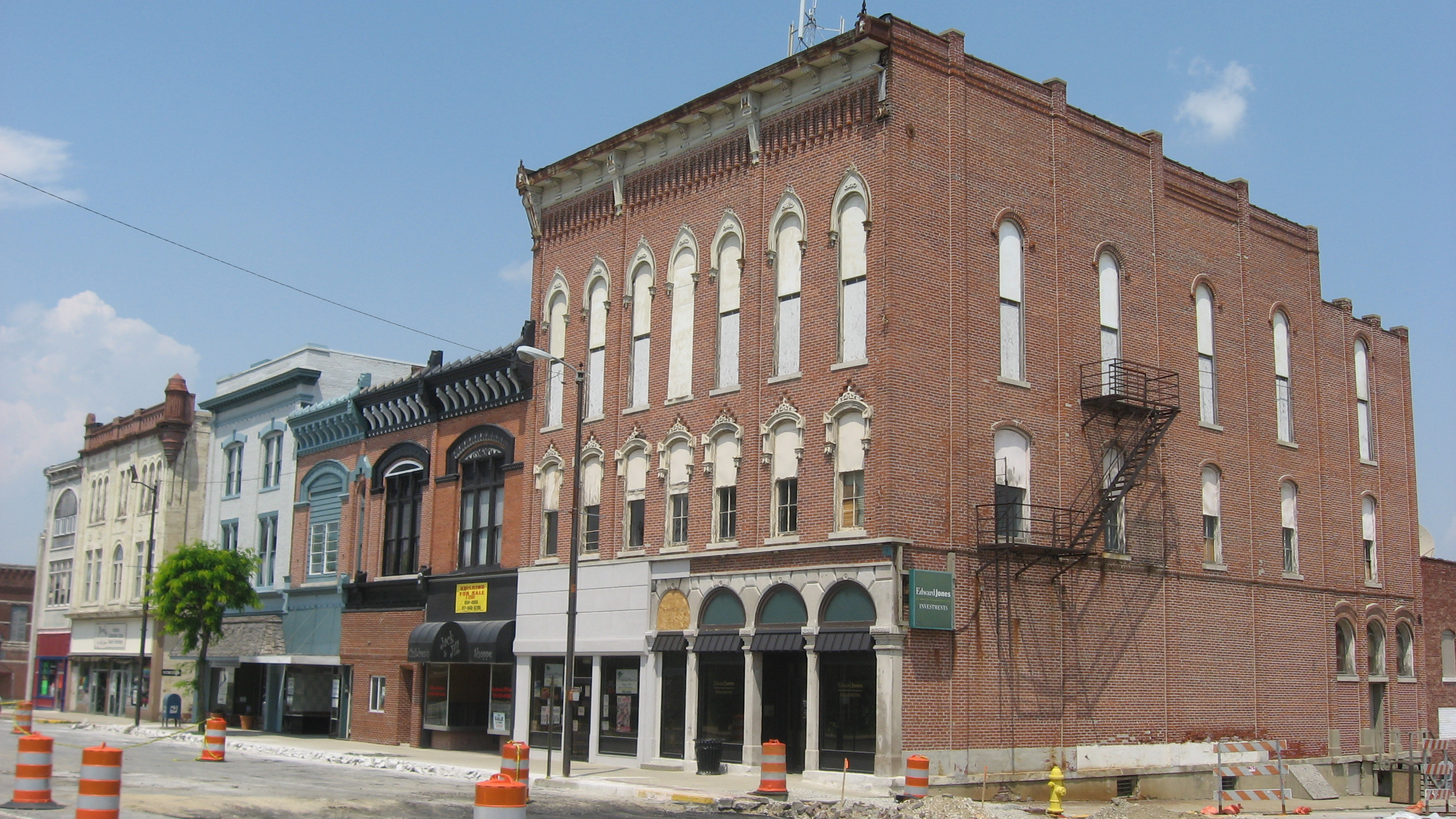 Buildings on the eastern side of the courthouse square in downtown Frankfort, Indiana, United States. Located along Jackson Street (U.S. Route 421/State Road 39, this block is part of the Frankfort Commercial Historic District, a historic district that is listed on the National Register of Historic Places.